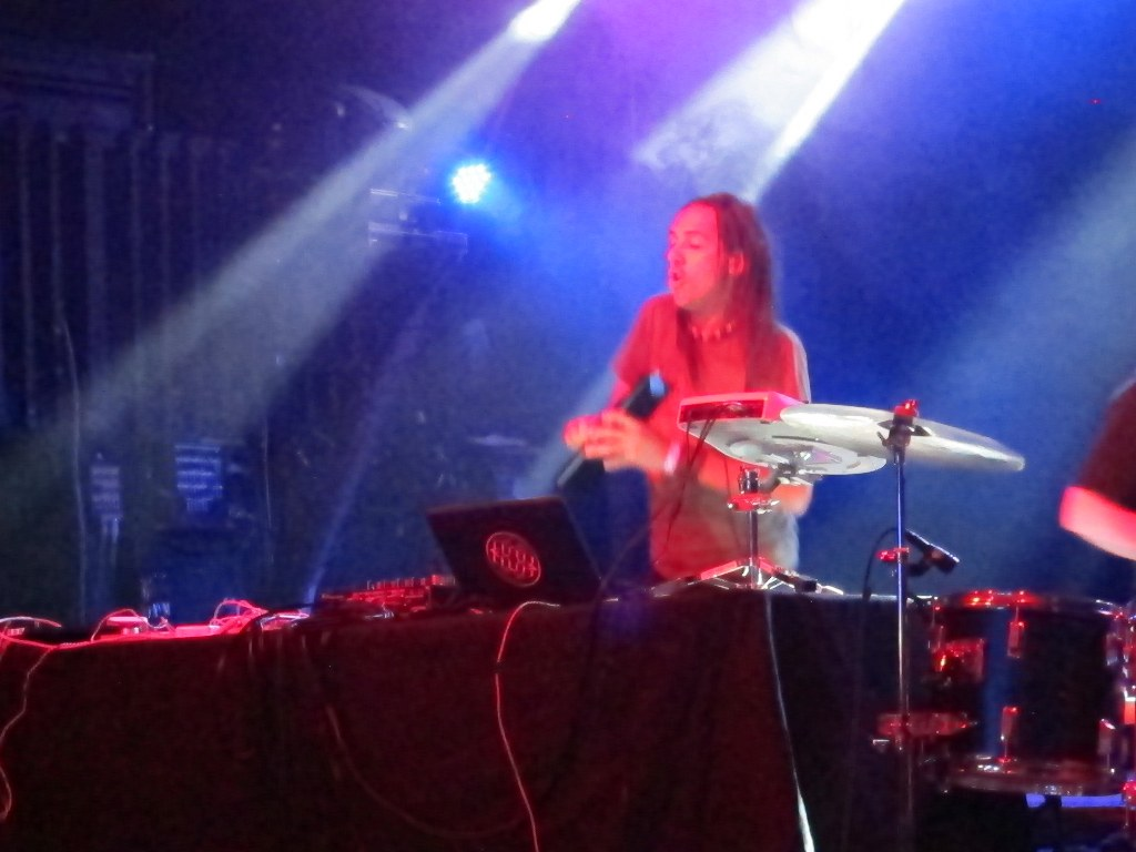 David Starfire in 2013